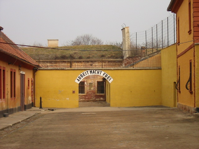 A picture taken inside Theresienstadt. 9 April 2005 by Colm Rice.